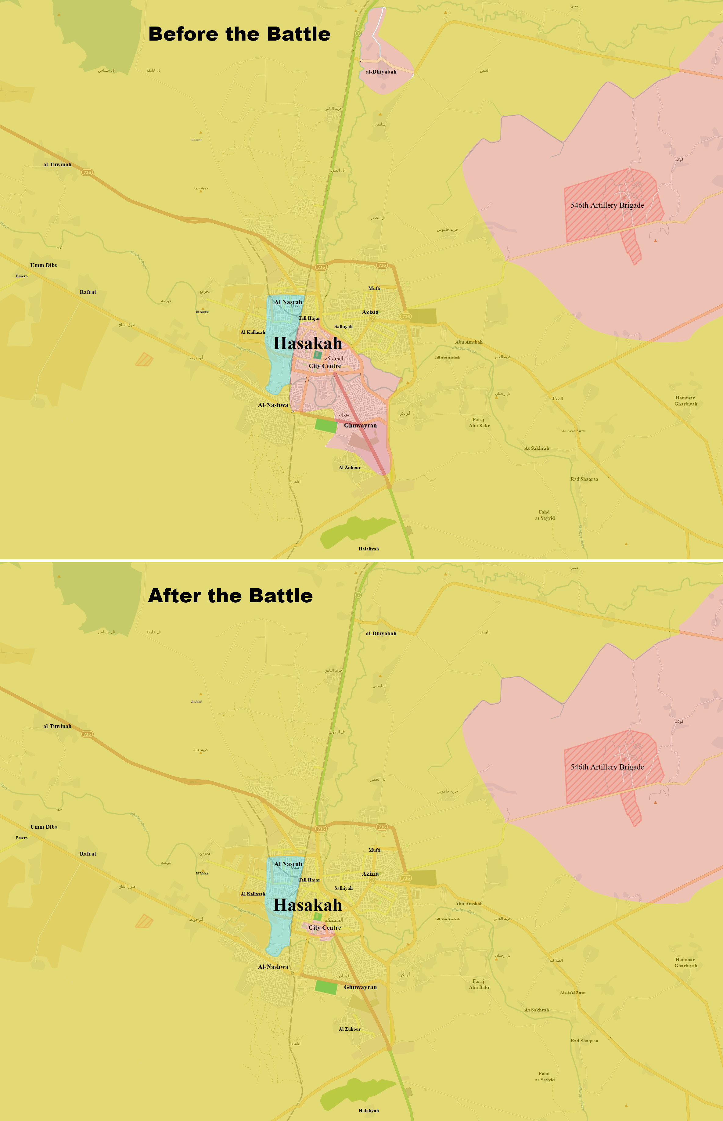 Situation in al-Hasakah city before and after the battle between government and pro-Kurdish forces in 2016.